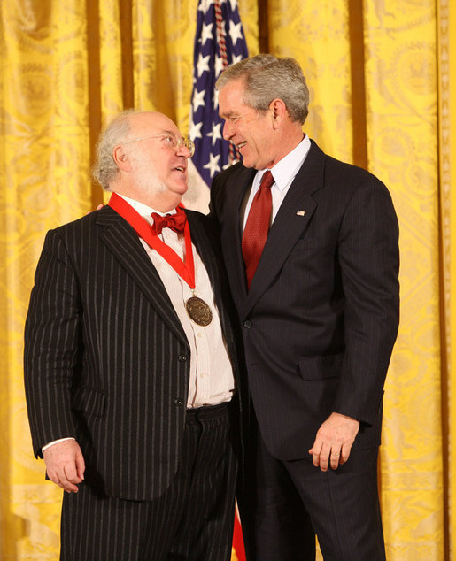 President George W. Bush congratulates Myron Magnet, editor of the City Journal of New York, as a recipient of the 2008 National Humanities Medal in ceremonies Monday, Nov. 17, 2008 at the White House.